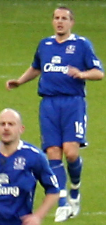 Phil Jagielka. Image cropped from original at flickr.